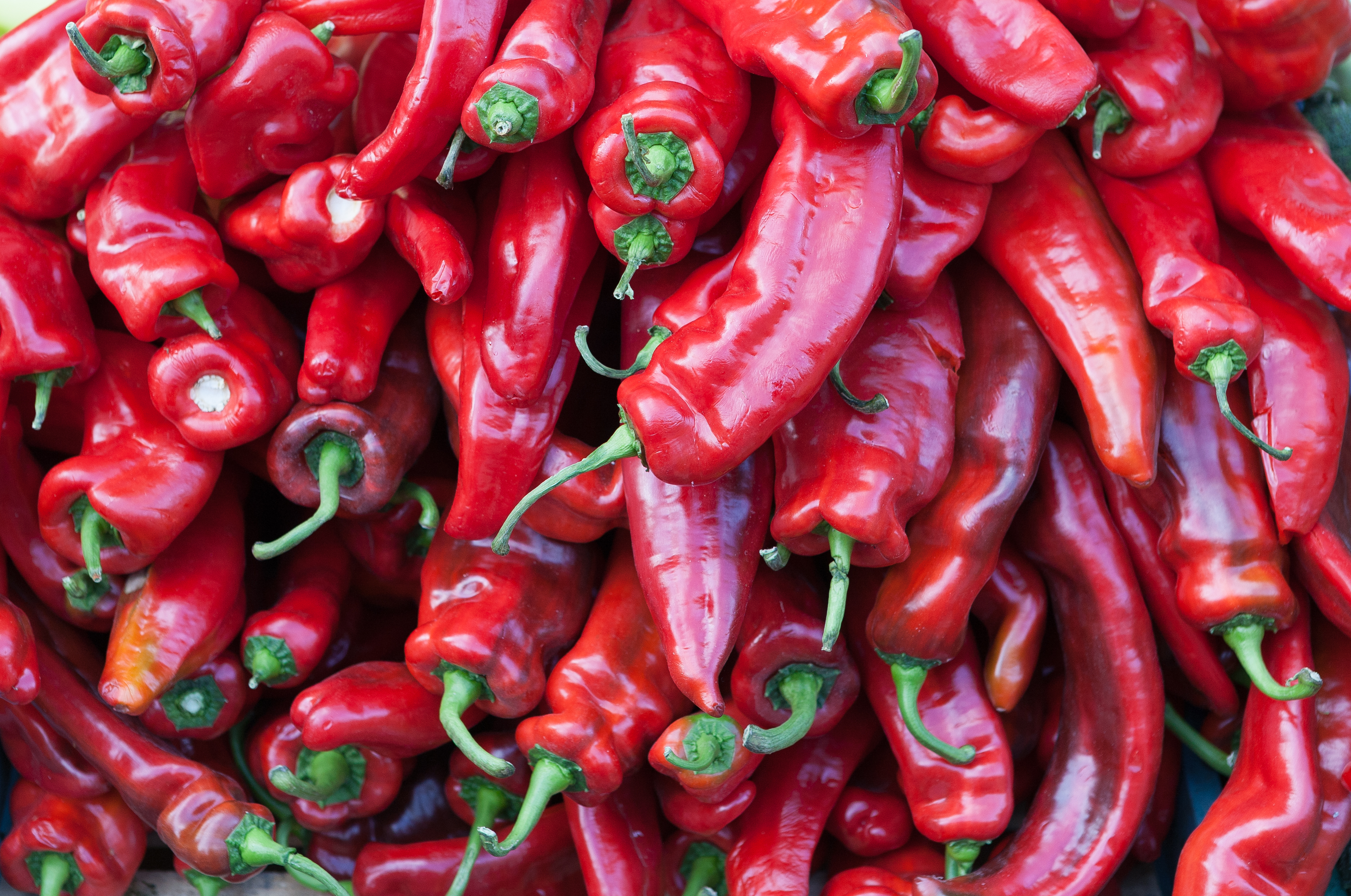 Red hot chilli peppers